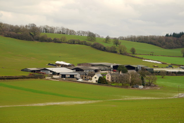 Trostrey Court and Farm